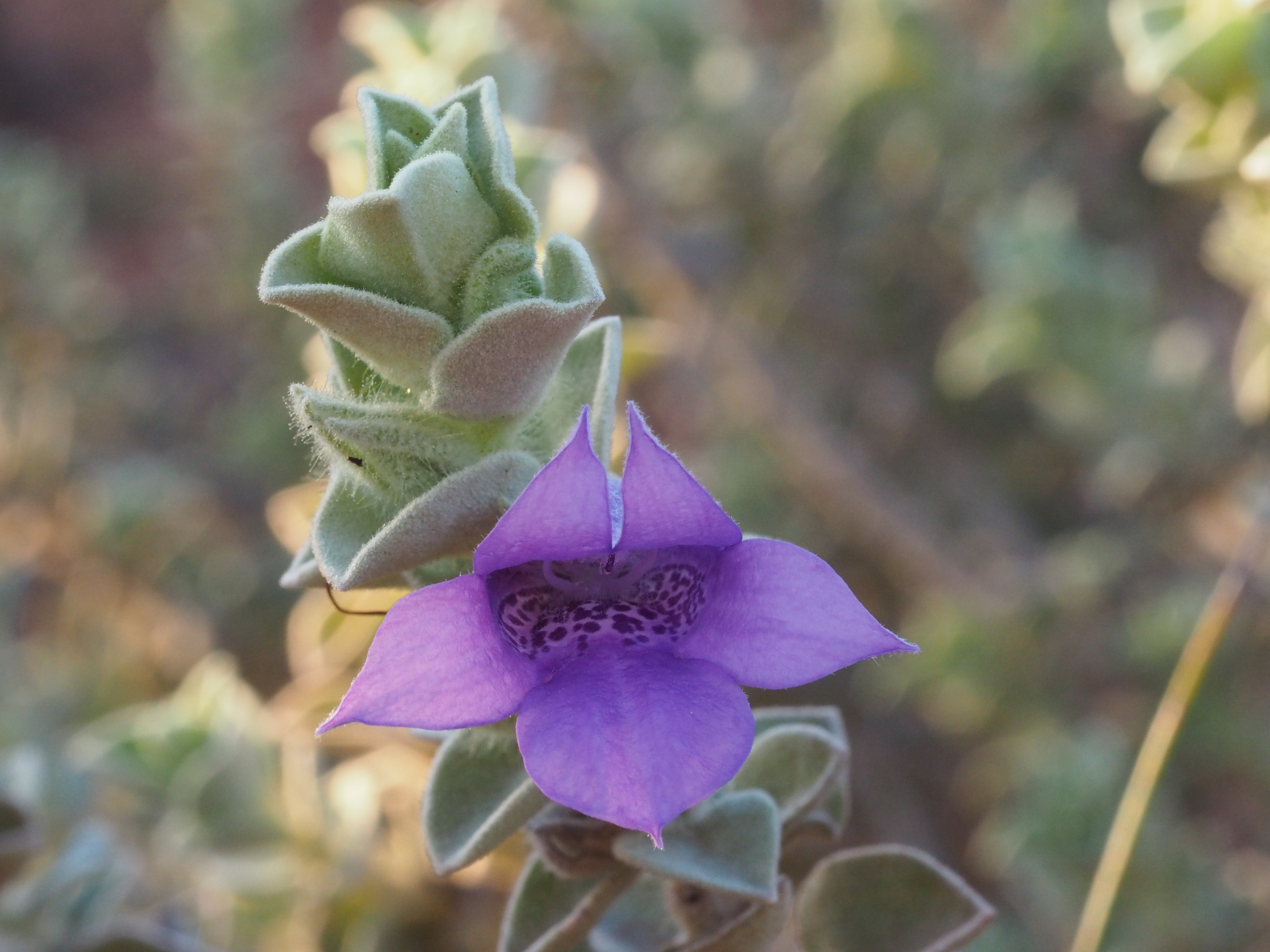 Eremophila mackinlayi spathulata growing at Karalundi